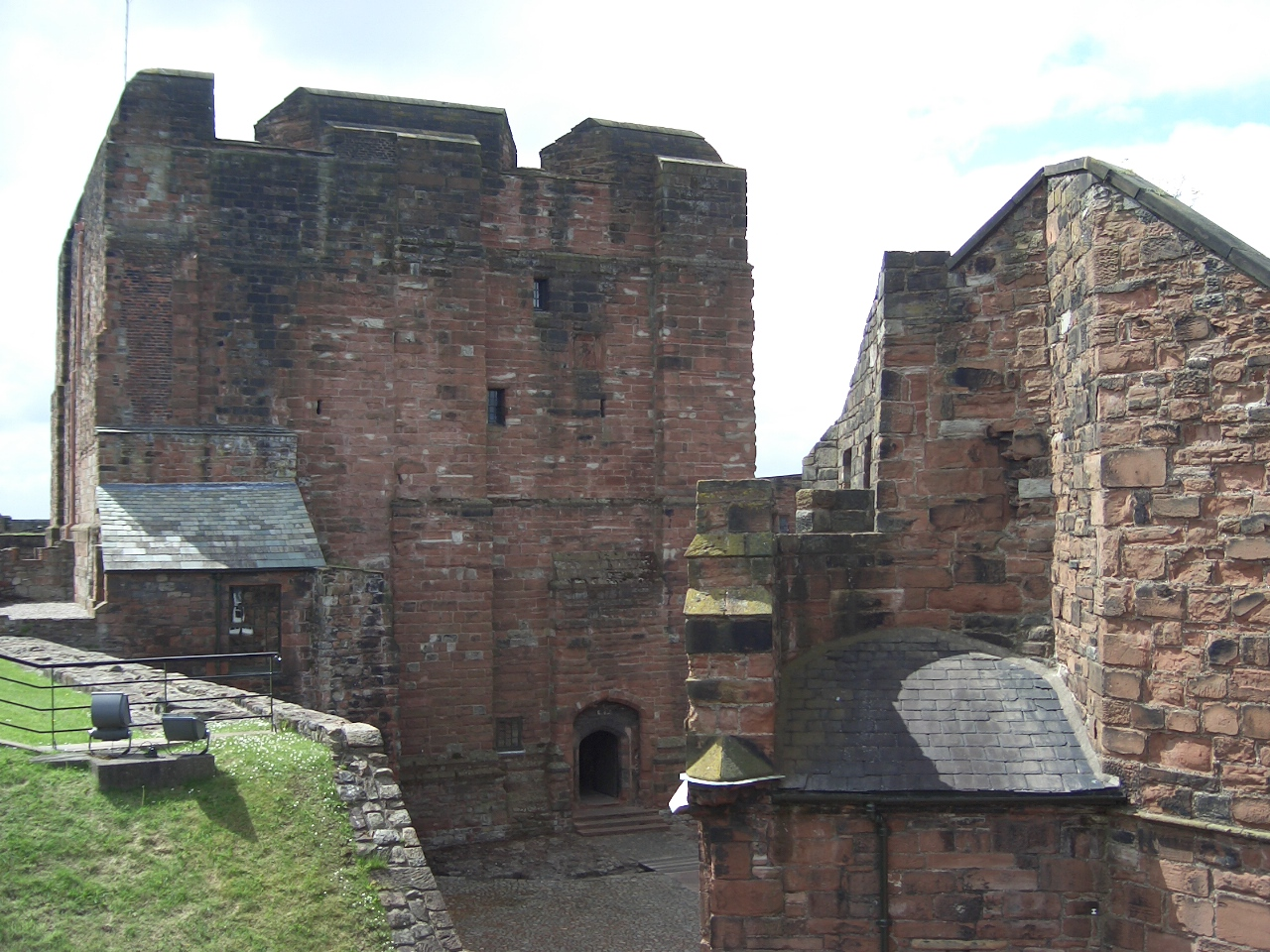 My photo of Carlisle from its own ramparts